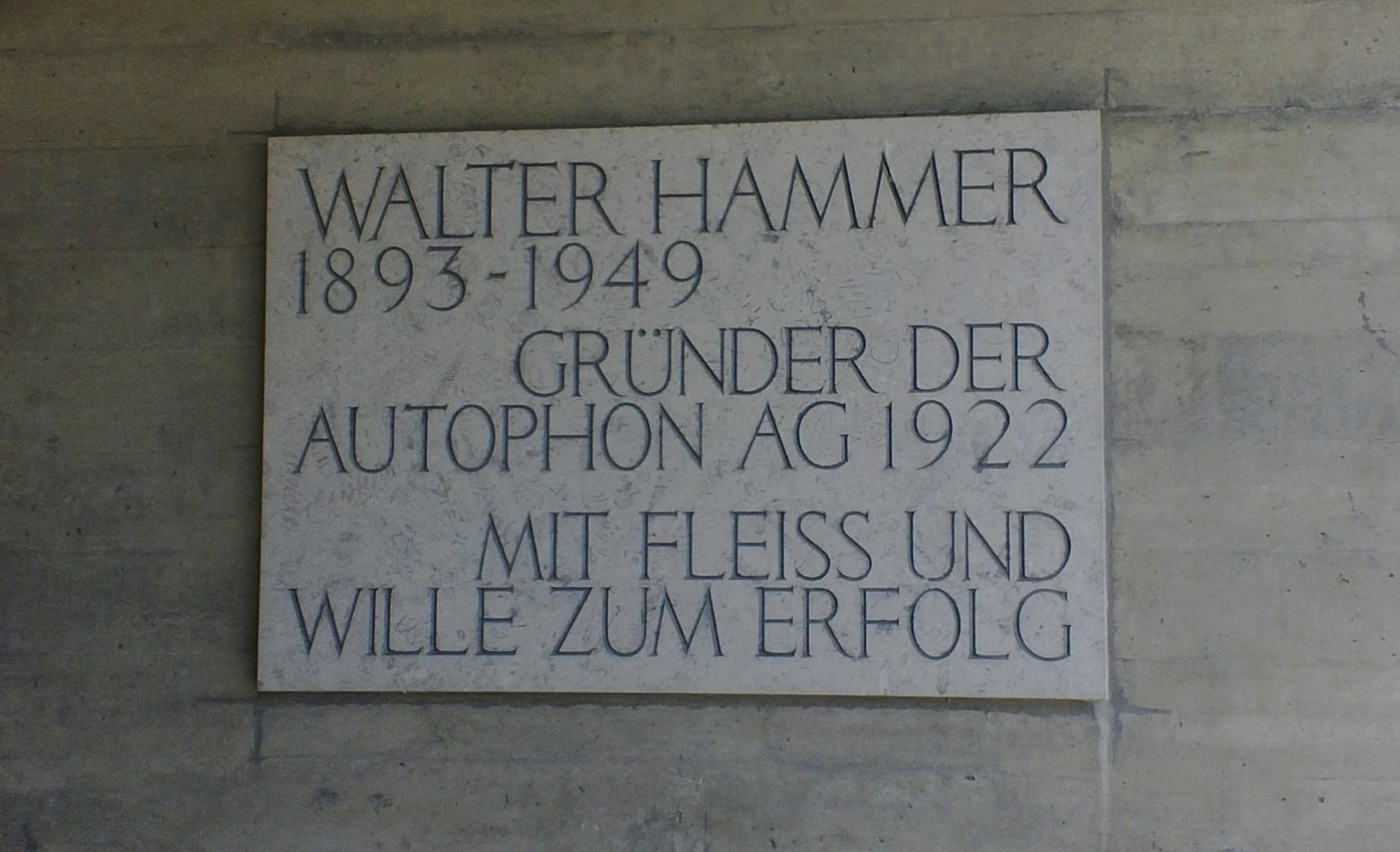 Commemorative plaque for Walter Hammer, founder of Autophon AG in Solothurn, located at the former Autophon (now Ypsomed) building